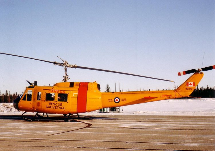 I took this photo of a CH-118 Huey helicopter (118103) on 07 January 1992 at CFB Cold Lake.